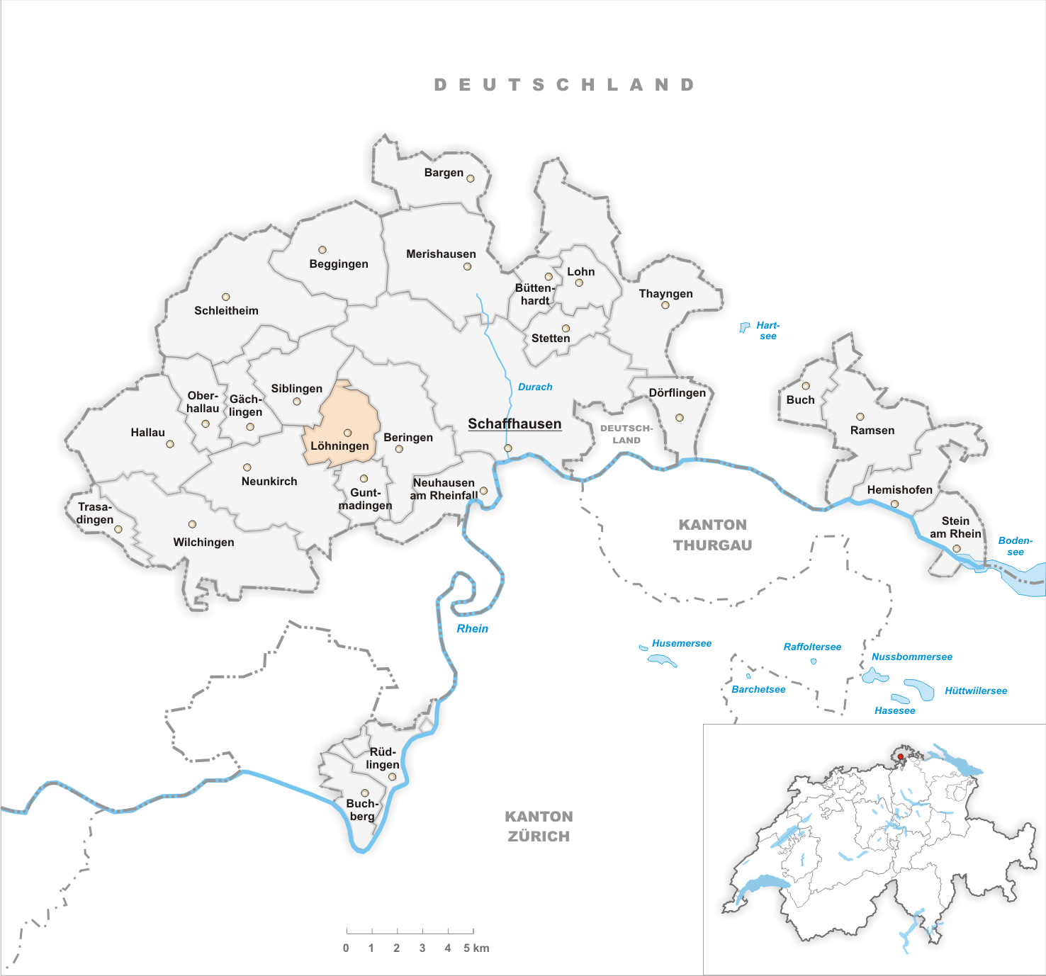 Municipality Löhningen